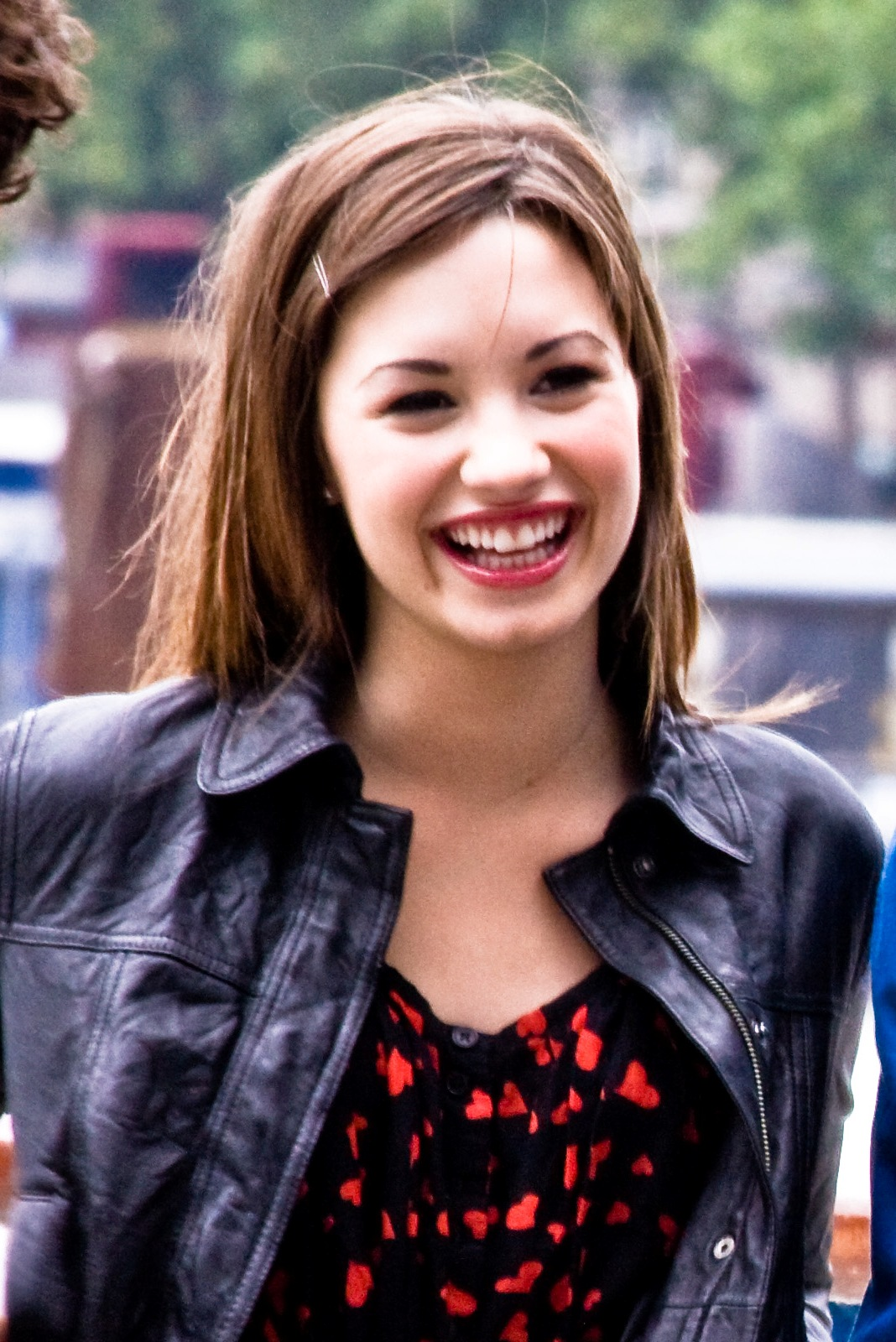 Demi Lovato, photo shot with The Jonas Brothers on the South Bank, London.